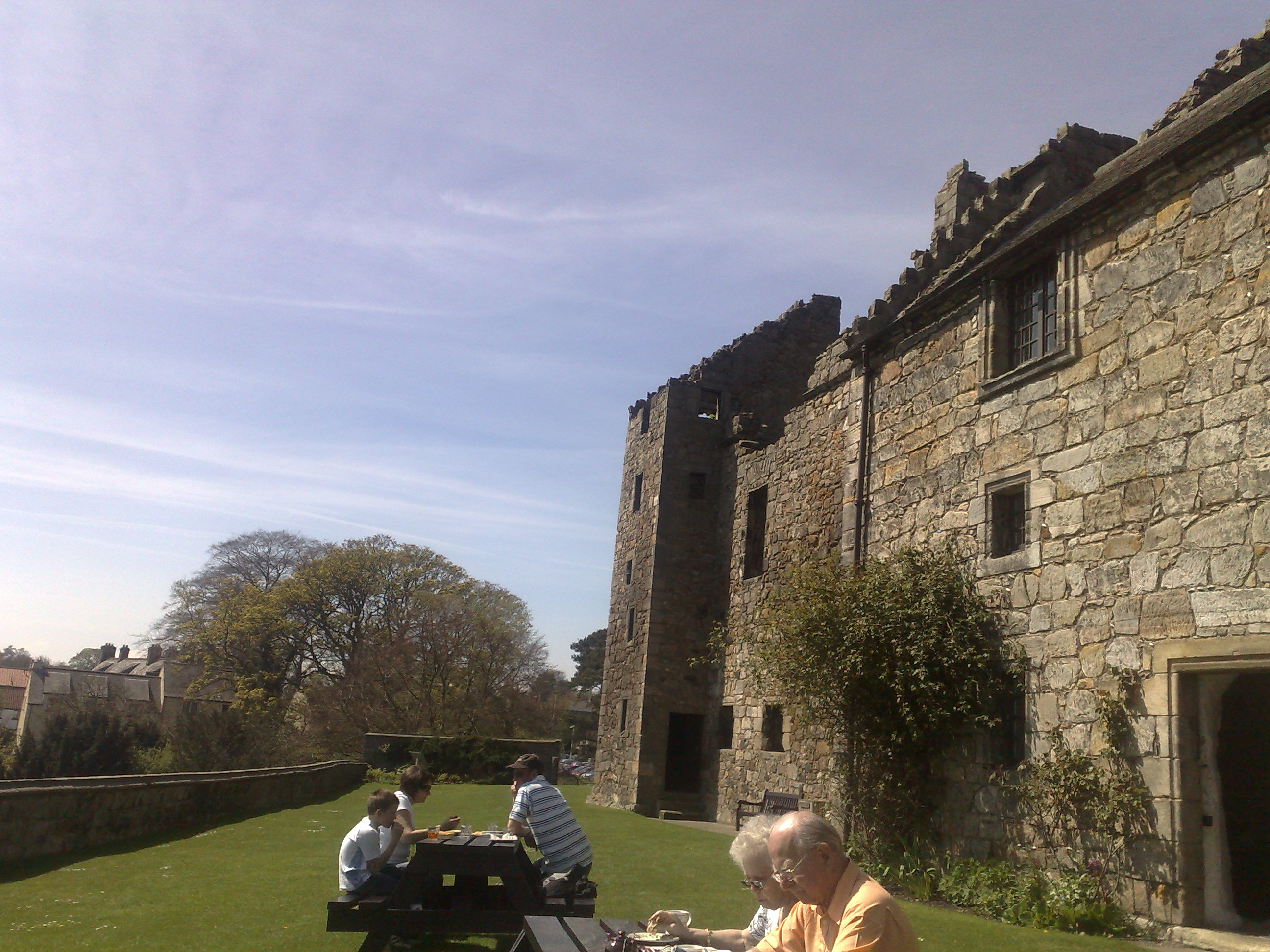 aberdour castle and gardens